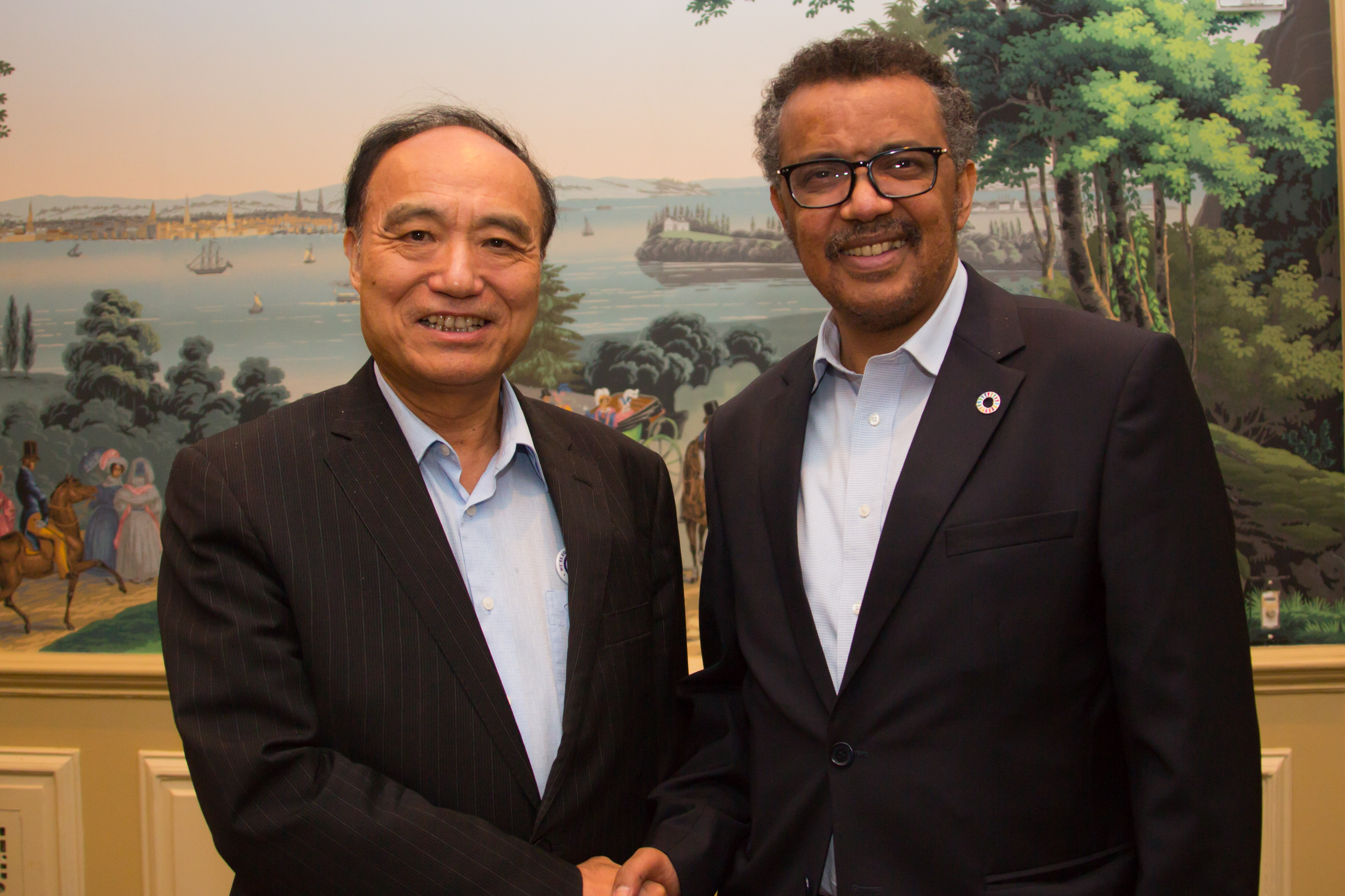 Houlin Zhao, Secretary - General, ITU with Dr Tedros Adhanom Ghebreyesus, Director-General, WHO at a special UN Broadband Commission Dinner, Yale Club, New York